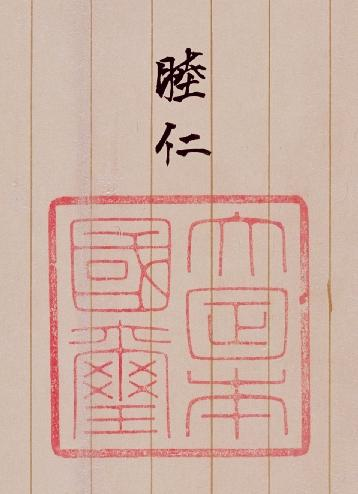 The Imperial sign and The Japanese seal of state（old model）